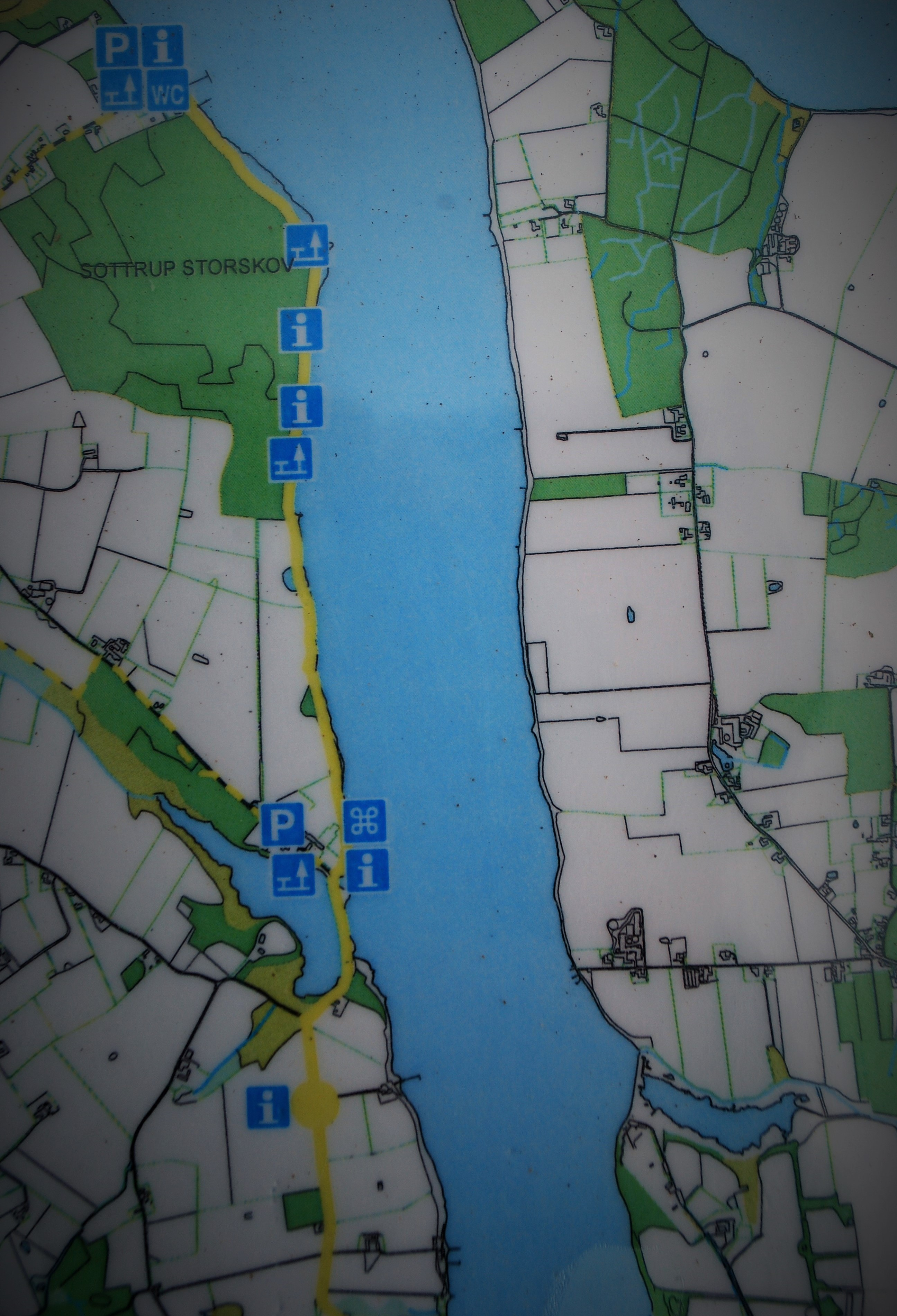 Alssund, Denmark